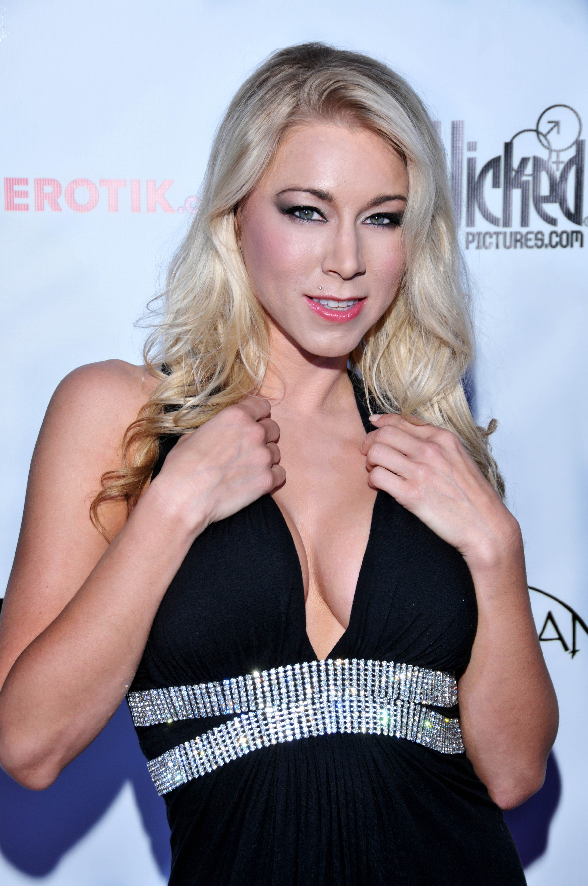 Katie Morgan at the XRCO Awards Show in Hollywood California on June 22, 2016 - Photo by Glenn Francis of